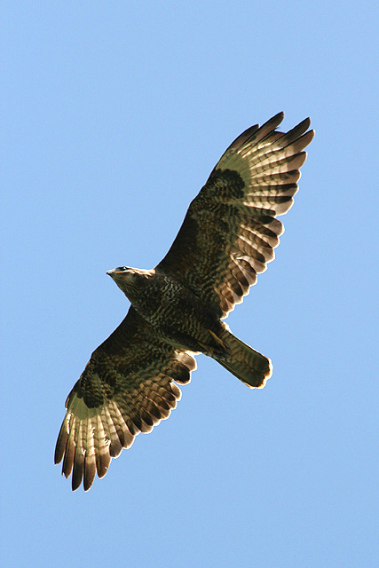 A gliding buzzard at Highside Photographed near the summit of Highside by a plantation edge where it was likely to be defending a nest site. It had already seen off a carrion crow and was checking me out. The buzzard (Buteo buteo) has made a spectacular comeback in the Scottish Borders over the past years and it is now regarded as a common breeding species.